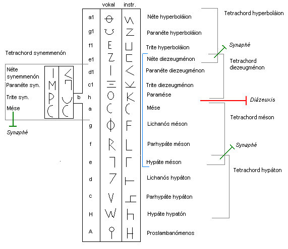 Structure of the Ancient Greek Tone System / The picture on its own without explanation is not useful!